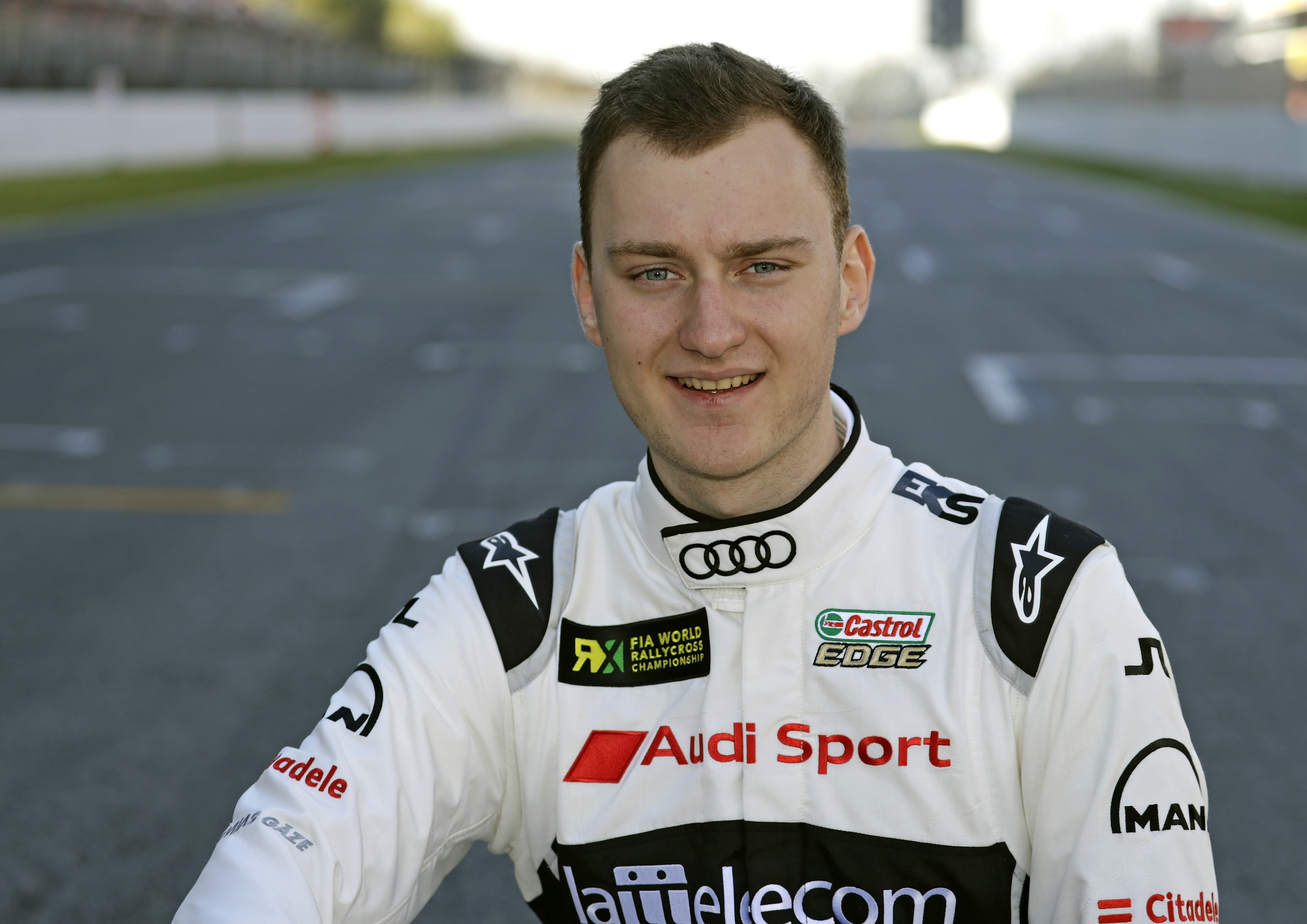 2017 FIA World Rallycross Championship // Round 01, Barcelona // Credit: EKS/Bodo Kraehling